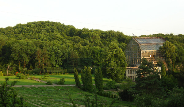 Conservatory of the Botanic Garden of the Ukrainian State University Lviv